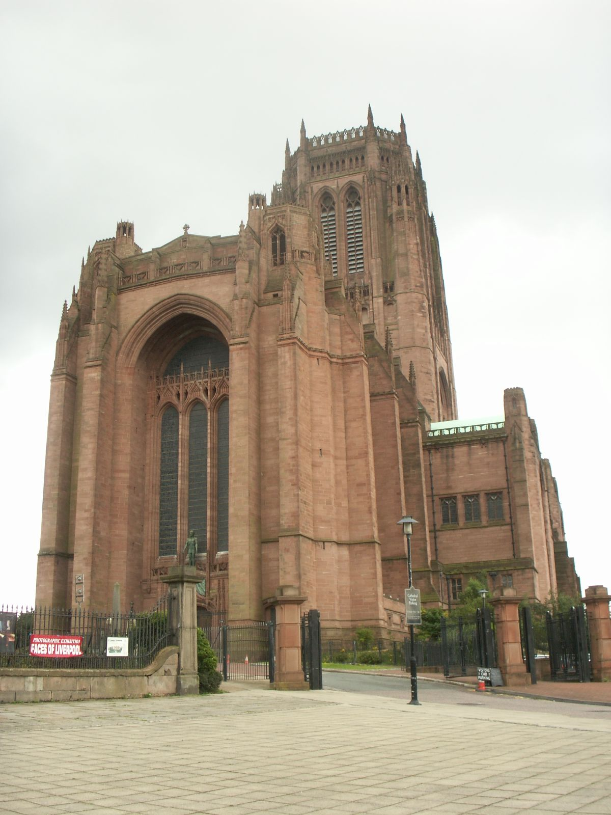 Liverpool Anglican Cathedral